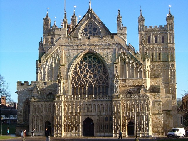 West front, Exeter Cathedral. Another view of 1059344, with the early afternoon sun picking out features on west-facing walls.